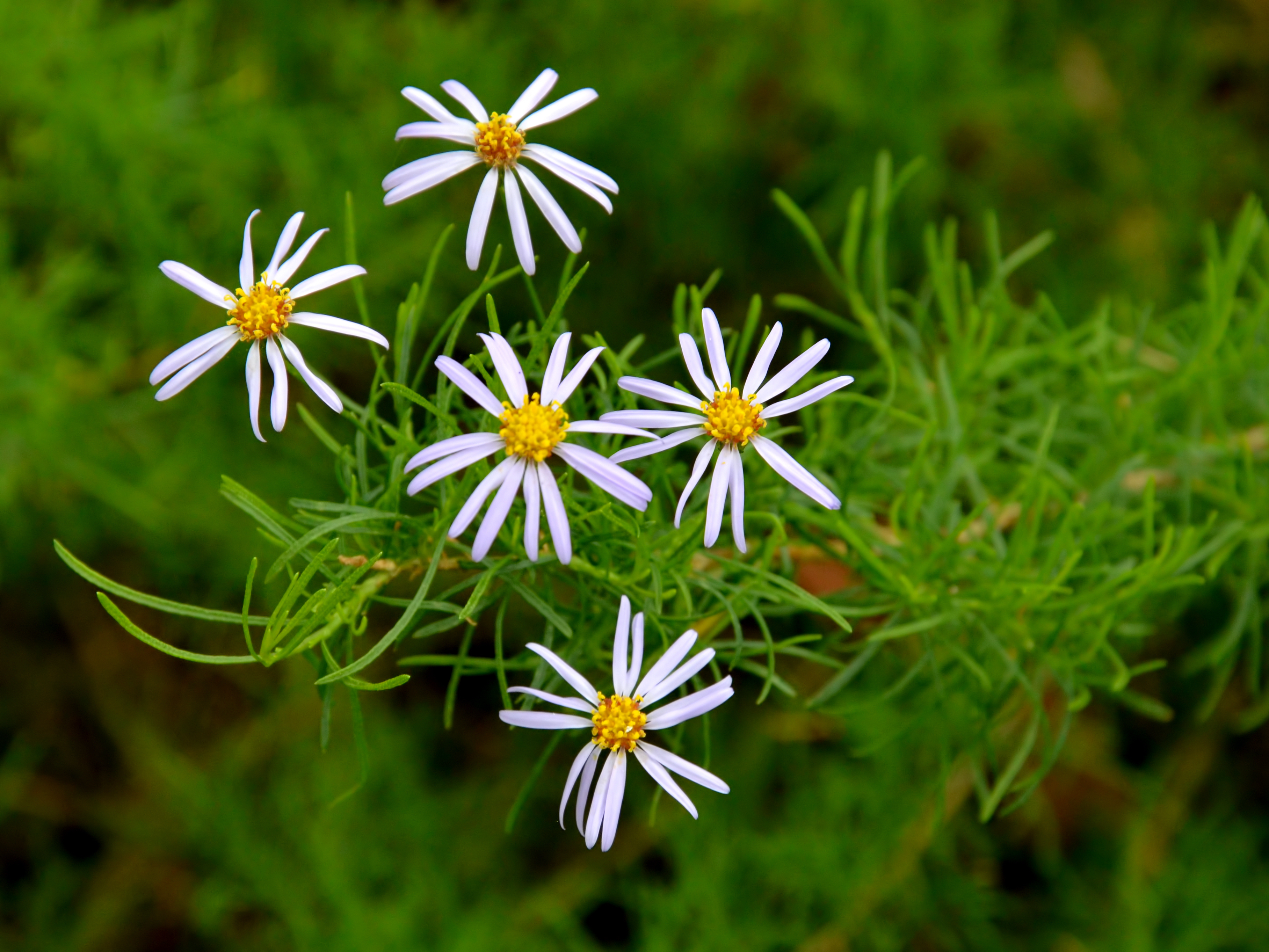 Fine-leaved Felicia at Kew Gardens, London, UK.